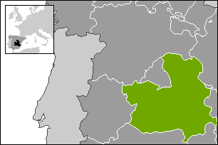 Map centered and fitted to NUTS ES4 area (Central Spain).